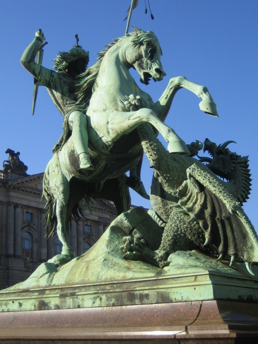 Sculpture "St. Georg im Kampf mit dem Drachen" in the Nikolaiviertel in Berlin-Mitte, sculpted by August Kiss